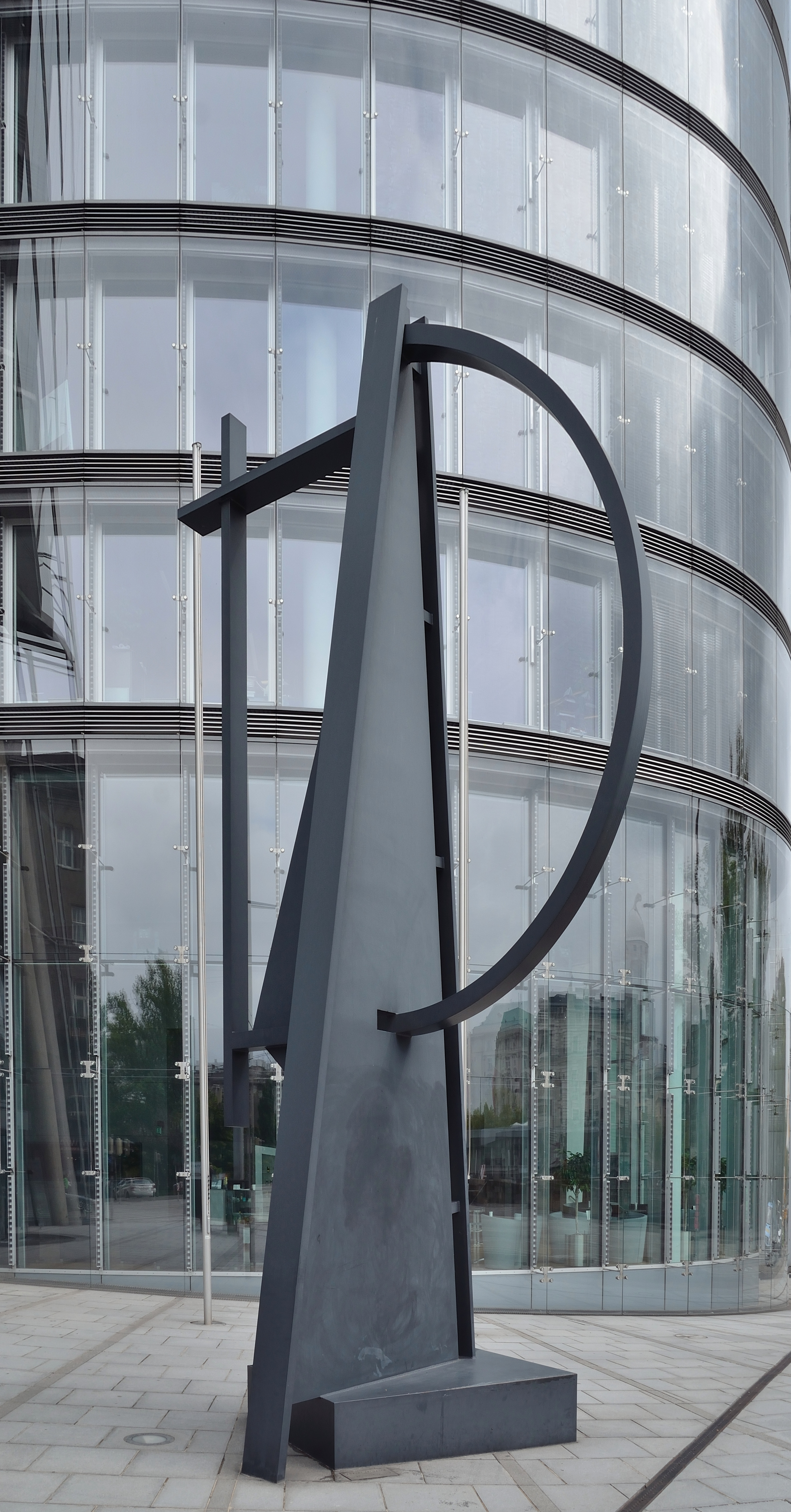 The sculpture Komposition in Eisen by Robert Jacobsen (1912-1993) is located in front of the UNIQA building at Leopoldstadt, Vienna.